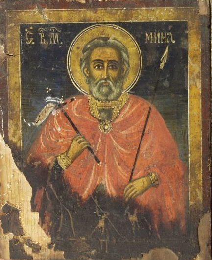 Saint Menas